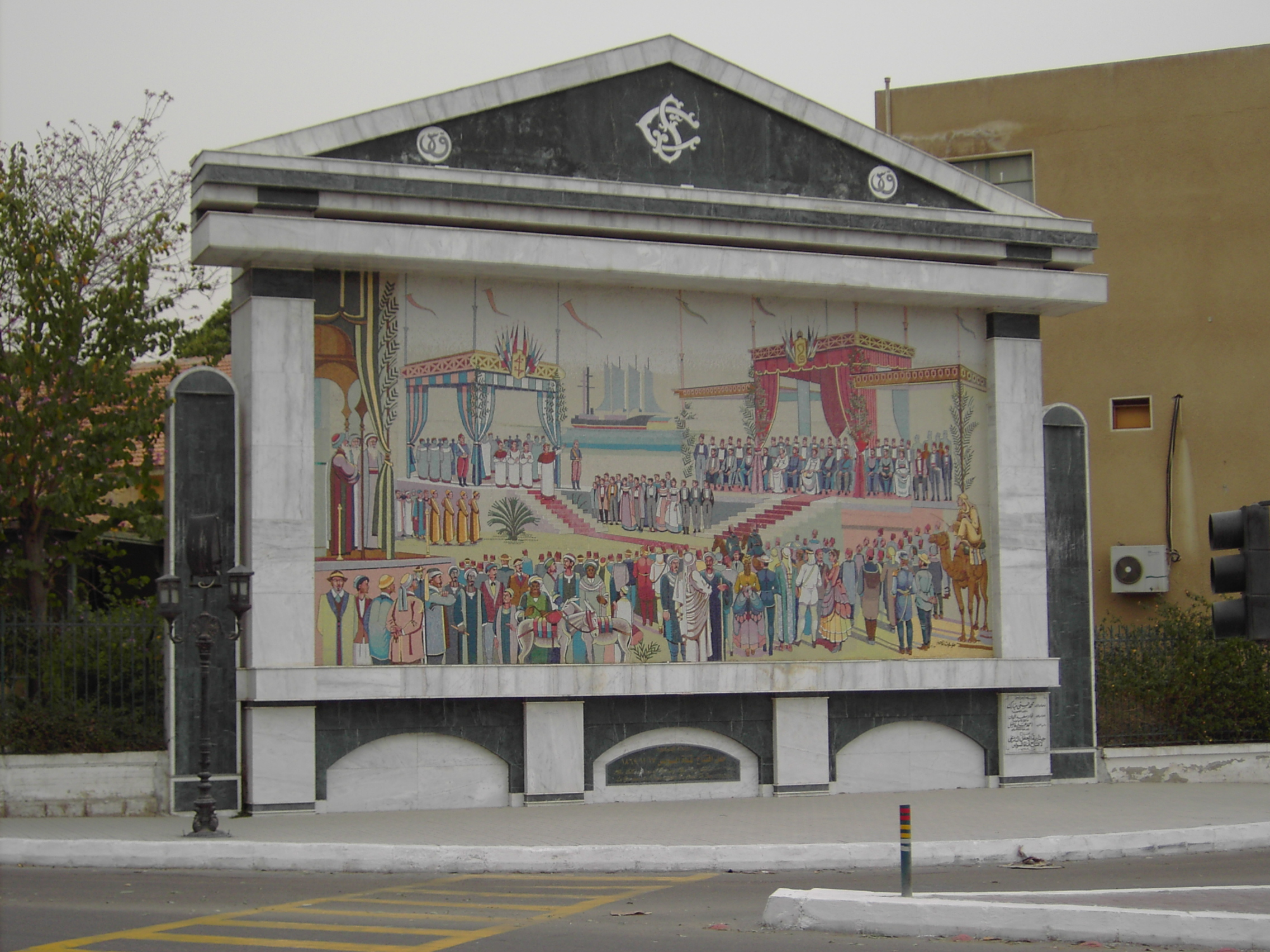 Monument for the opening of the Suezcanal